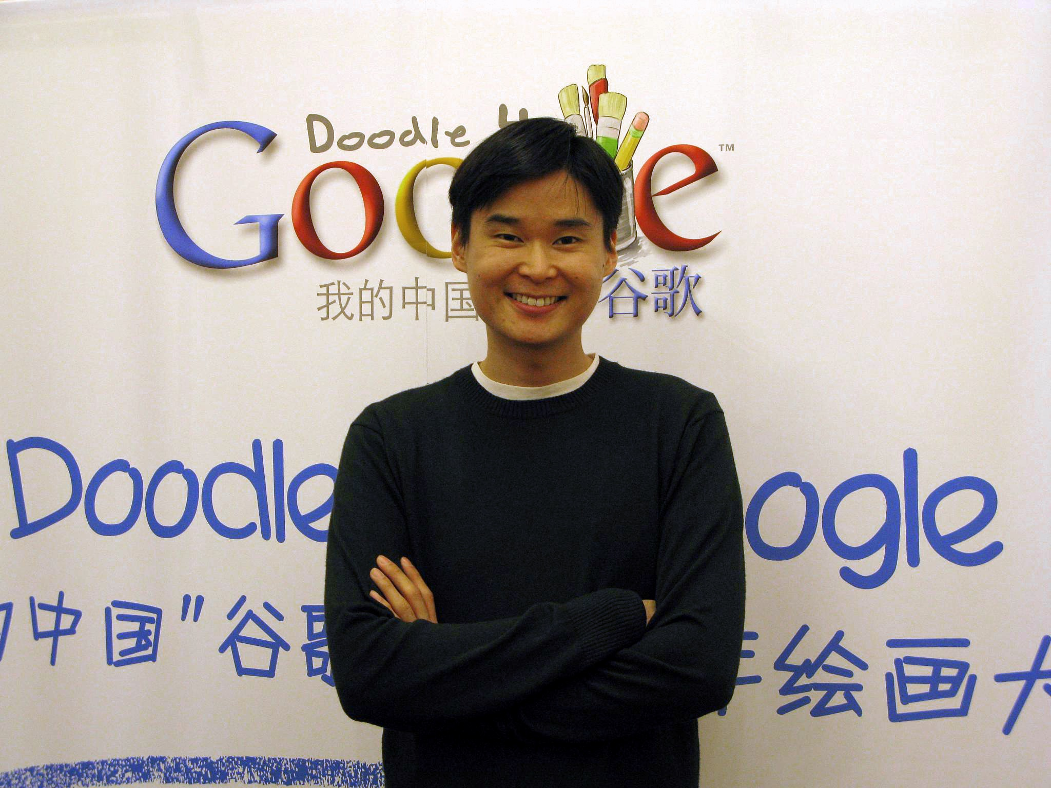 Dennis Hwang at a Doodle 4 Google event.